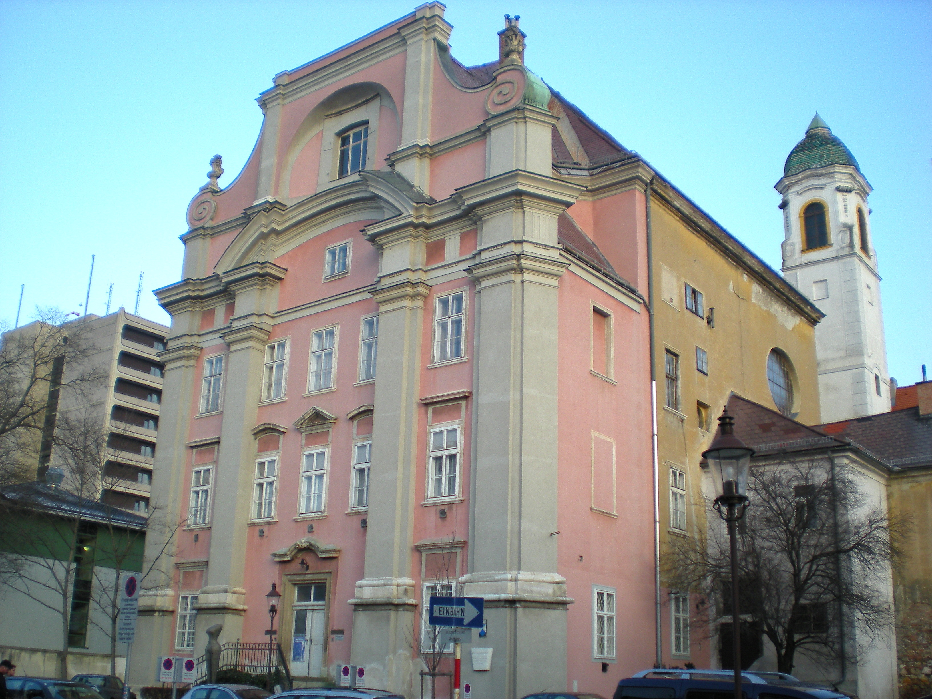 The former Carmelite church of Wiener Neustadt, Lower Austria